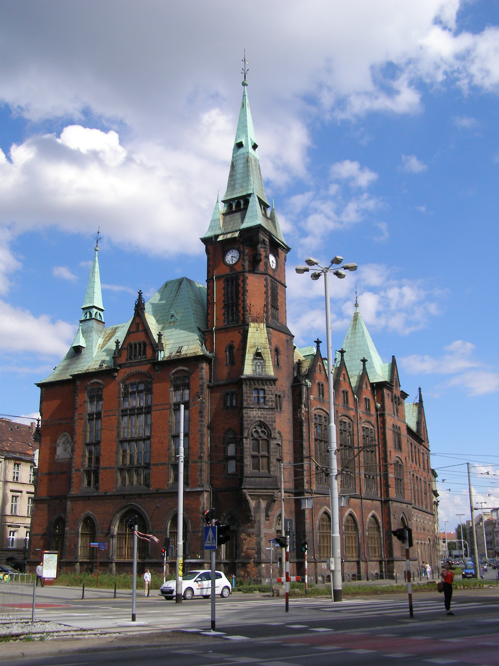 Wrocław - University Library